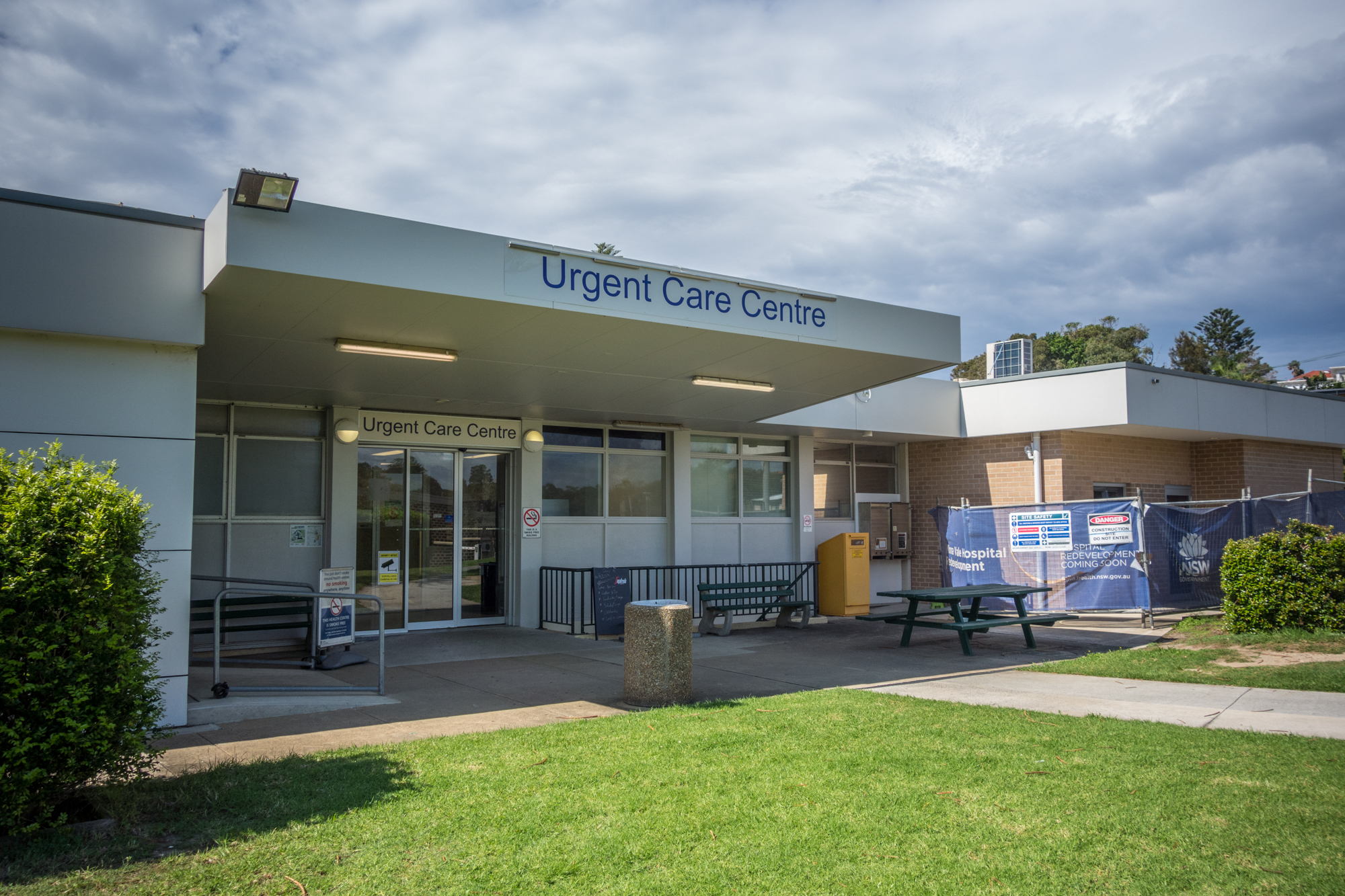 Mona Vale Urgent Care Centre, Mona Vale, NSW, Australia. Previously the Emergency Department of Mona Vale Hospital.